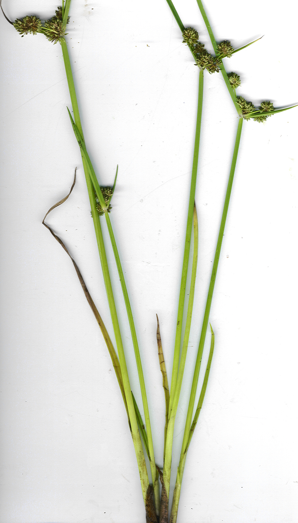 Cyperus difformis (plant). Location: Maui, Hana Hwy